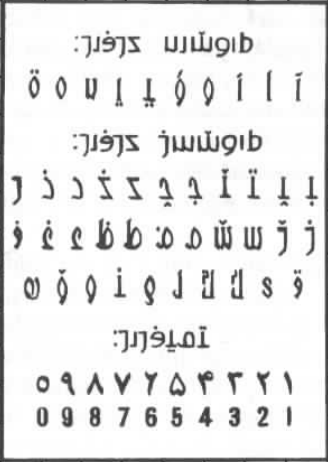 Tatar alphabet by I. N. Kharitonov. 1912